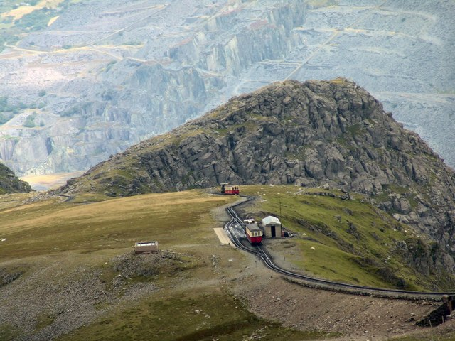 The peak, Llechog seen from Crib y Ddysgl, with Clogwyn station of the Snowdon Mountain Railway in front and the Llan Peris slate quarries in the background.